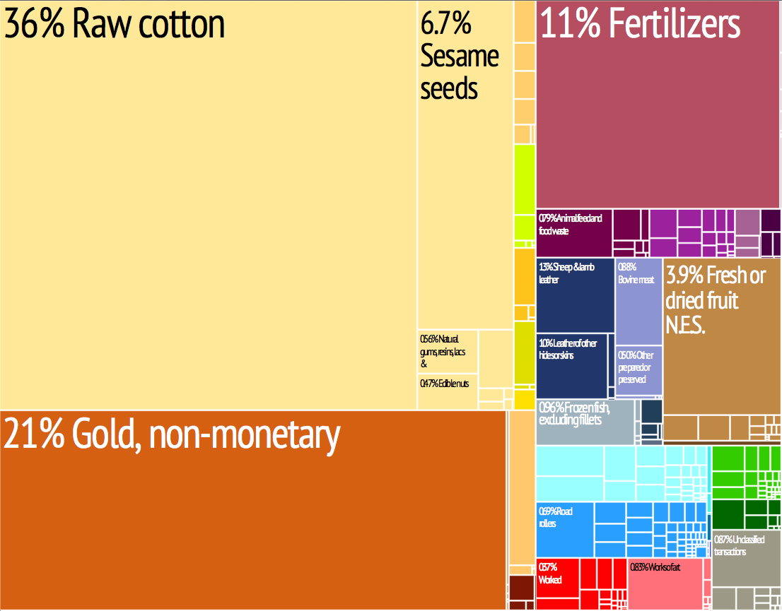 Export Trading Treemap. From MIT/Harvard Atlas of Economic Complexity